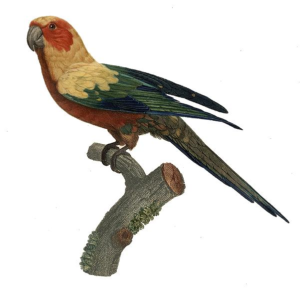 Ilustration by Jacques Barraband. Original description: "Perruche Ara Guarouba femelle". From Histoire Naturelle des Perroquets (by François Levaillant, 1801-1805). Bird illustrated is Aratinga solstitialis